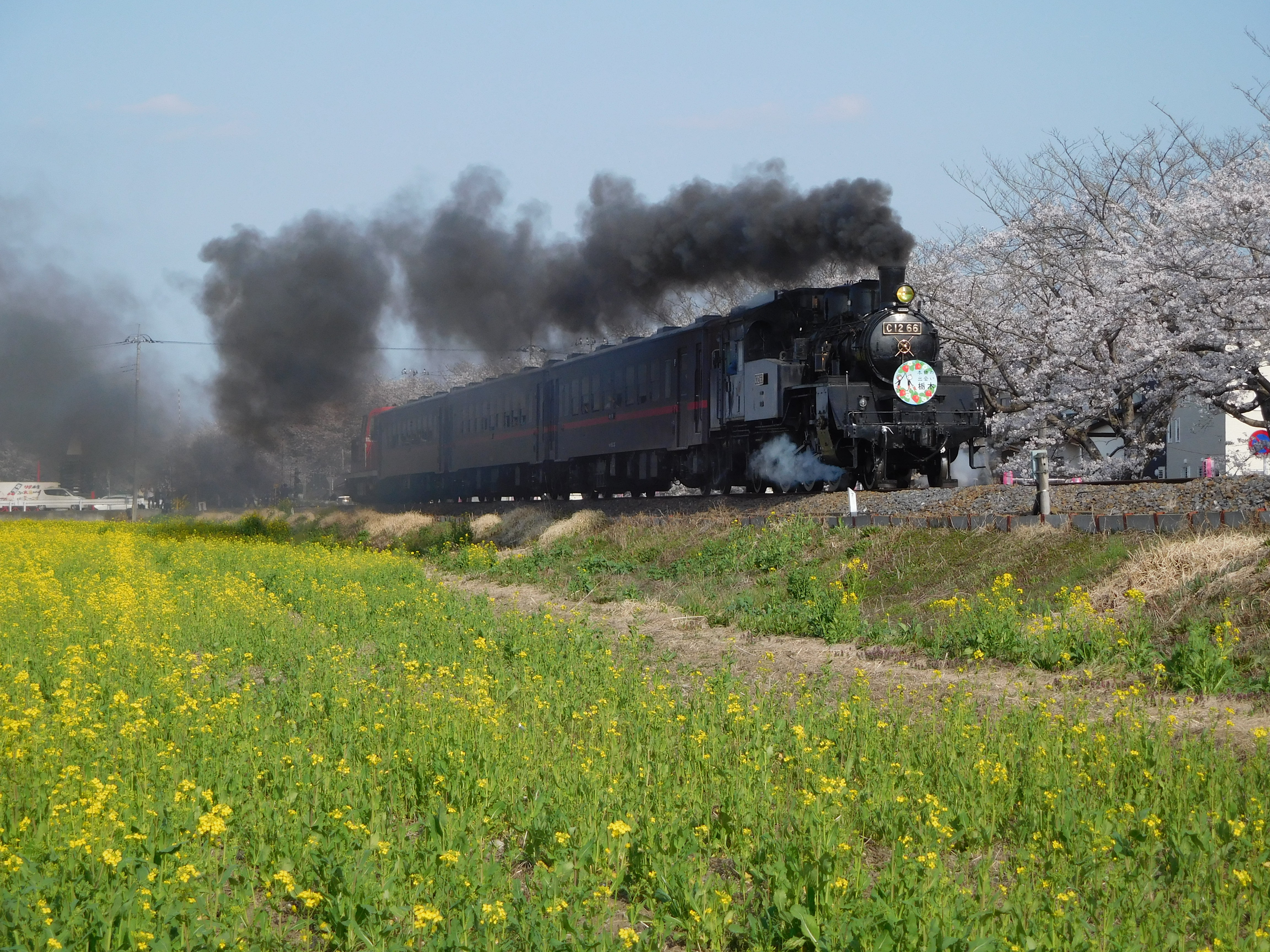 This is a steam locomotive C12 66 with cherry blossoms and rapeseed field. It was taken in Moka, Tochigi, Japan.